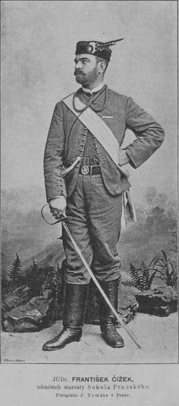 Photo of František Čížek (1850-1889), Czech lawyer, chairman of Sokol.